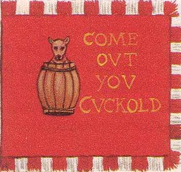 A flag used in the English Civil War